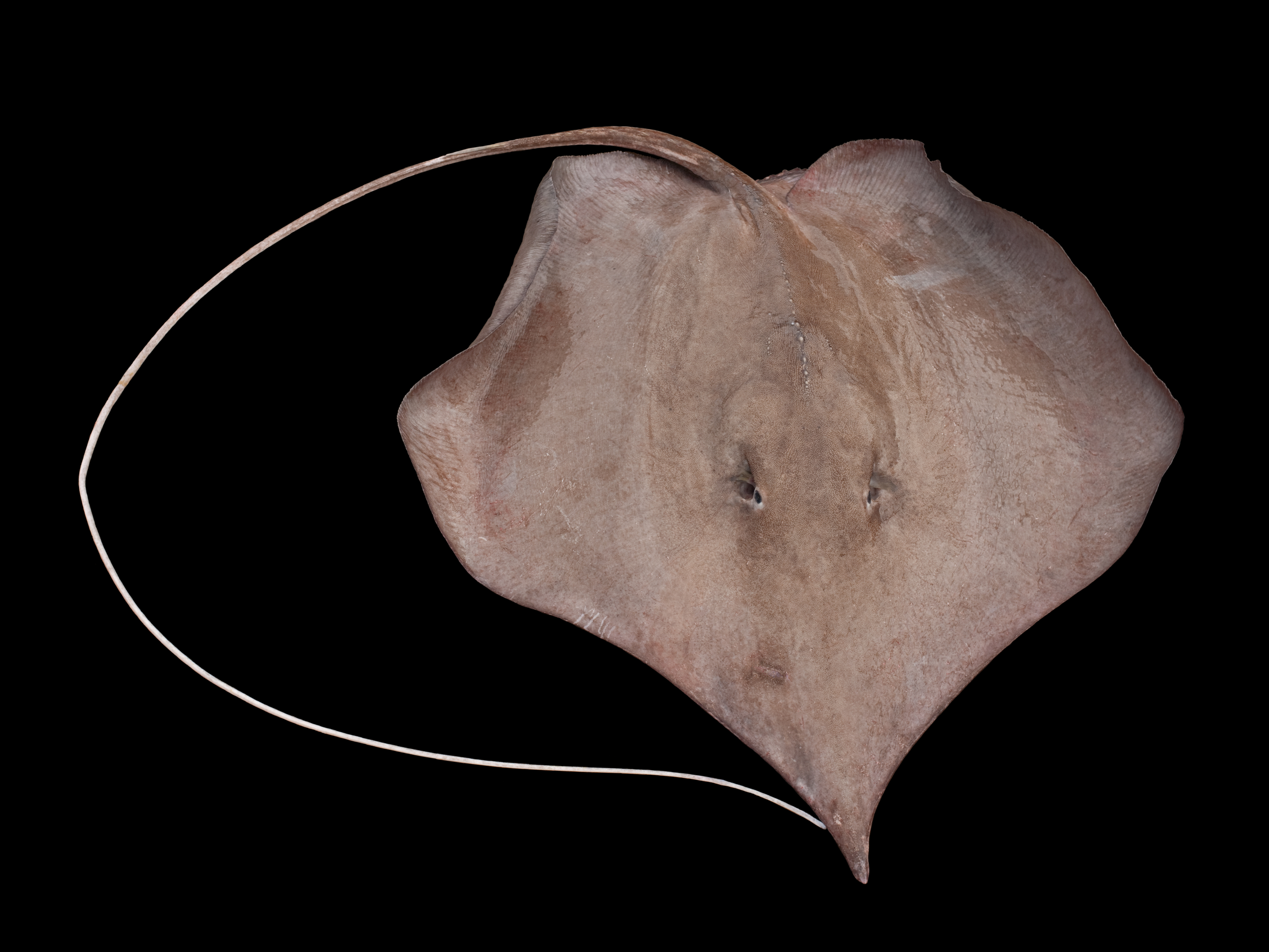 Sharpsnout stingray caught offshore off Paramaribo, Suriname. The co-ordinates are the approximate catching location. This work is free and may be used by anyone for any purpose. If you wish to use this content, you do not need to request permission as long as you follow any licensing requirements mentioned on this page.